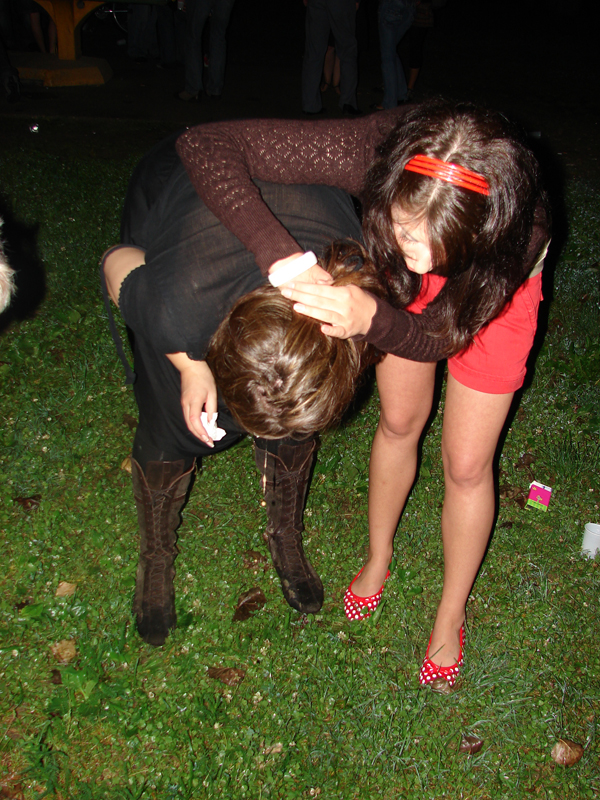 A drunk woman vomits, during a party in Zagreb and a friend helps her.